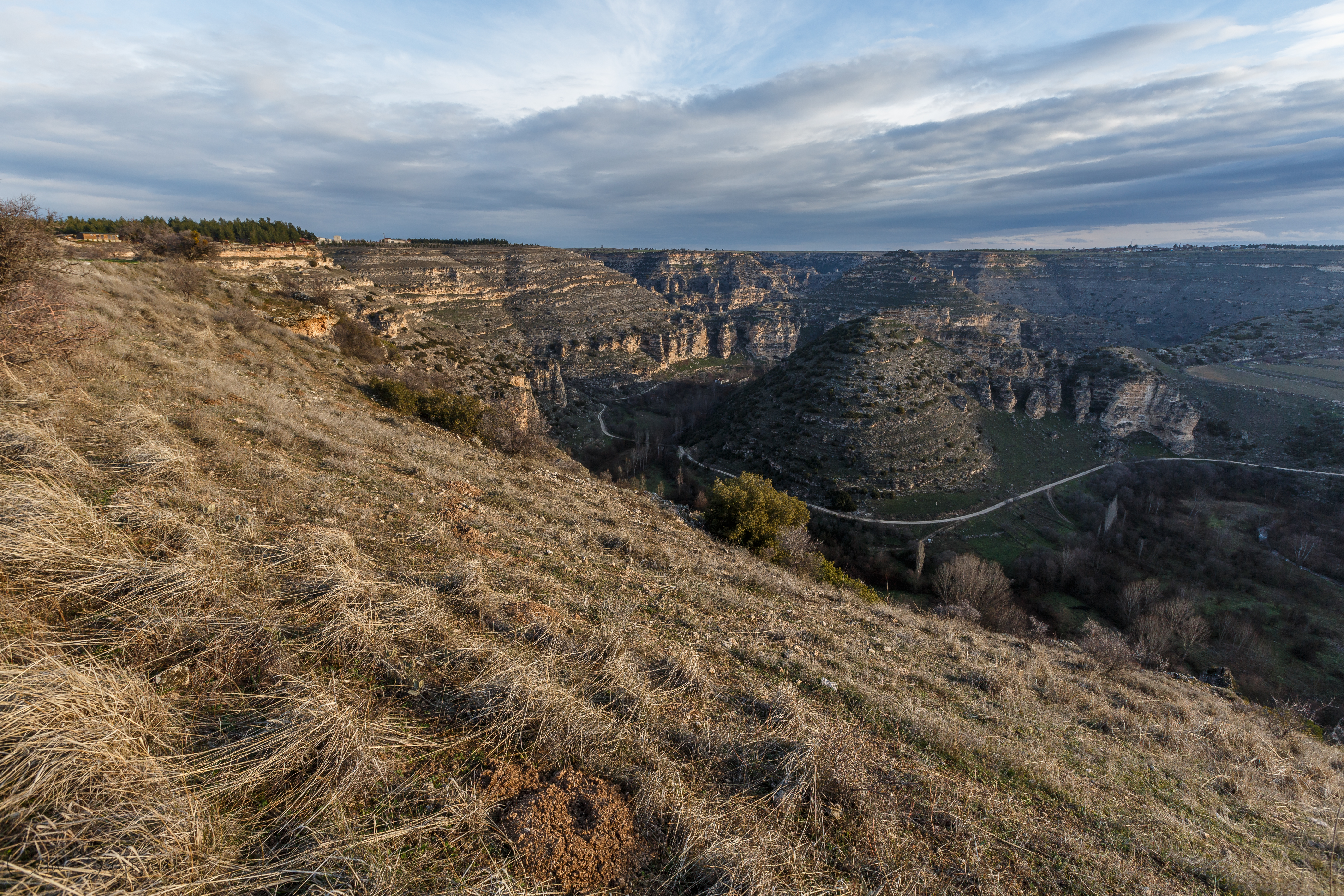 The second biggest canyon in the world is the Ulubey Canyon and this photo is only a small, but perhaps the most spectacular part of it.